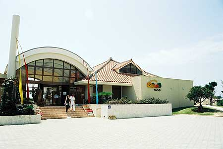 Terme VILLA Chula-U